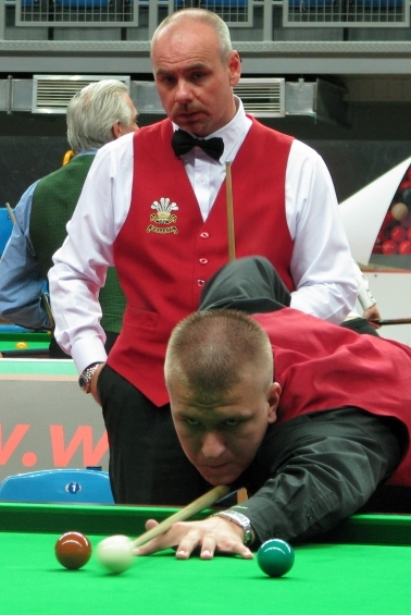 European Snooker Chamiponship 2008. Marcin Nitschke against Darren Morgan (Wales)